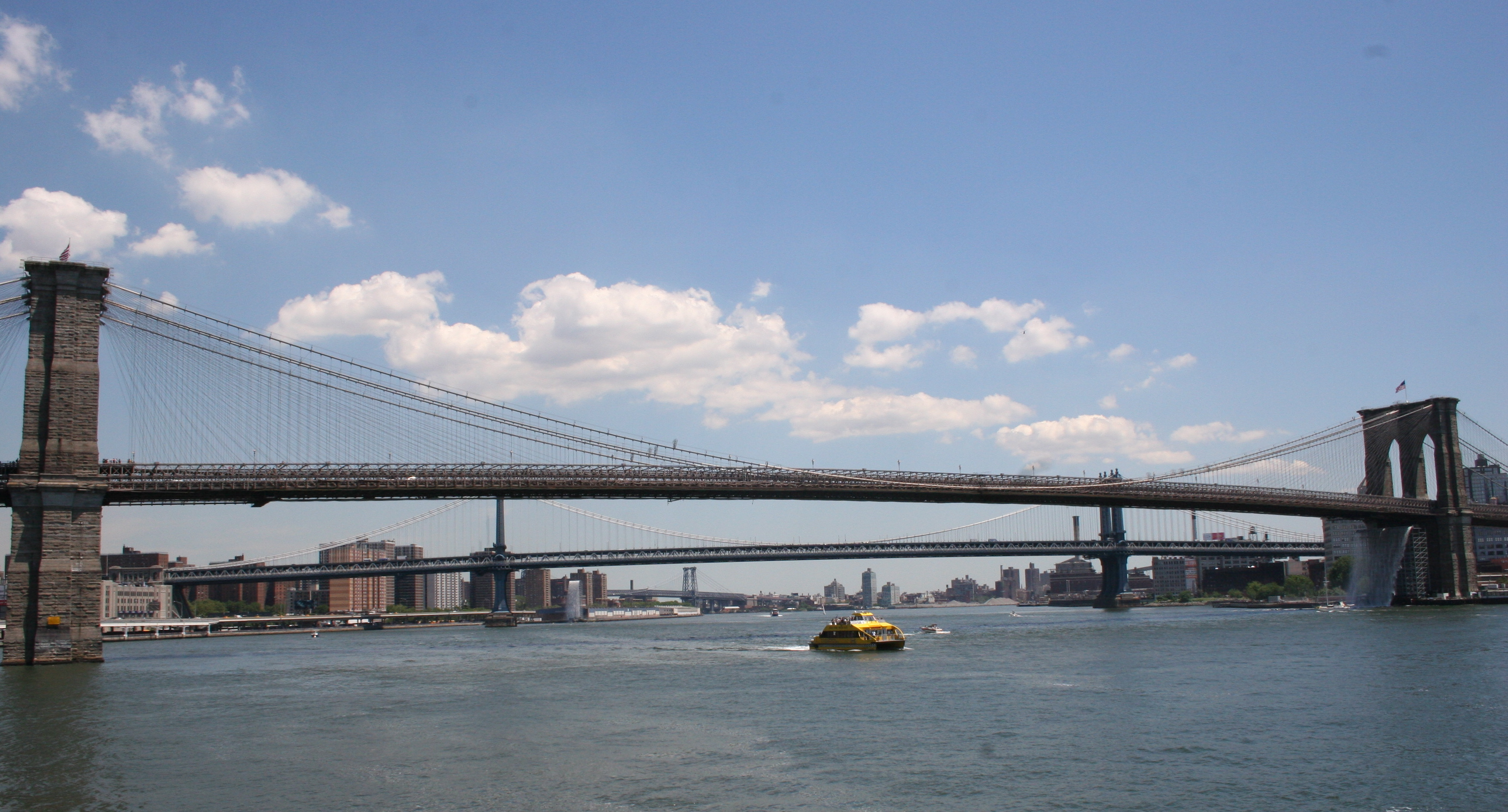 View on East River from Pier 17, South Street Seaport, NYC